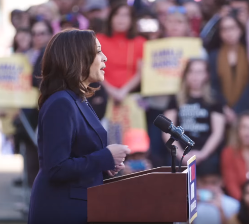 Kamala Harris announcing her candidacy for presidency.